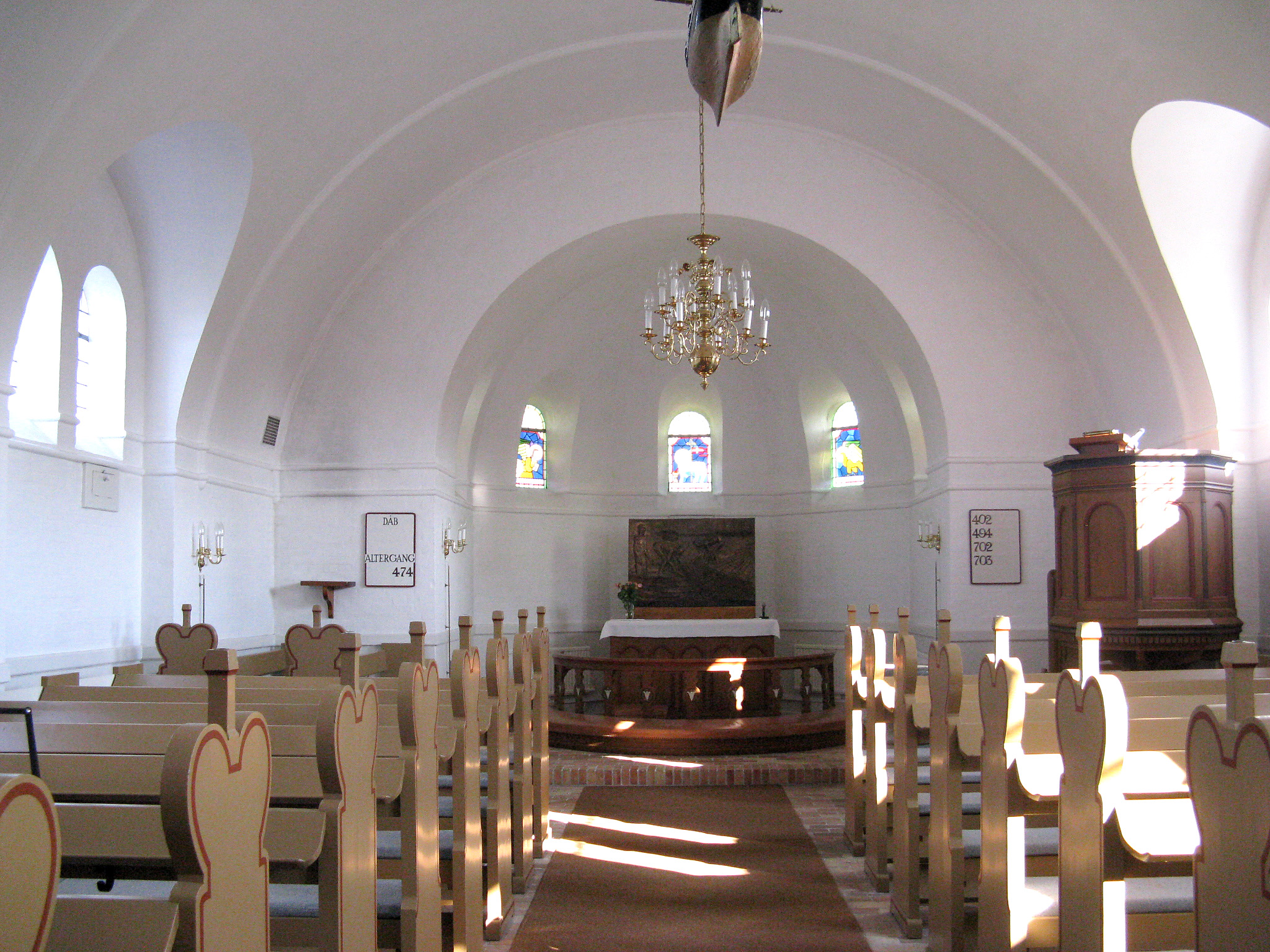 Thi inside of Reersø Kirke from 1904